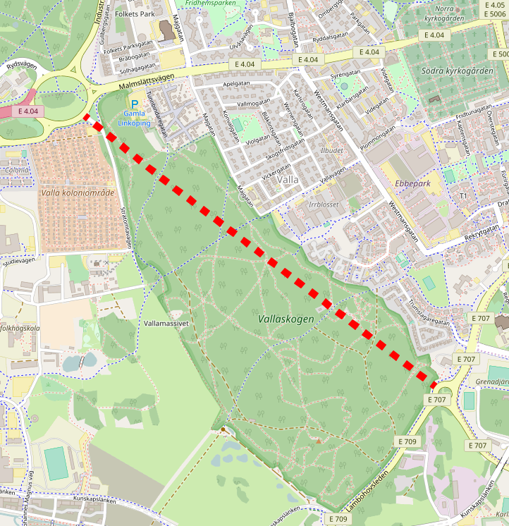 A map showing the proposed alignment of Vallaleden.